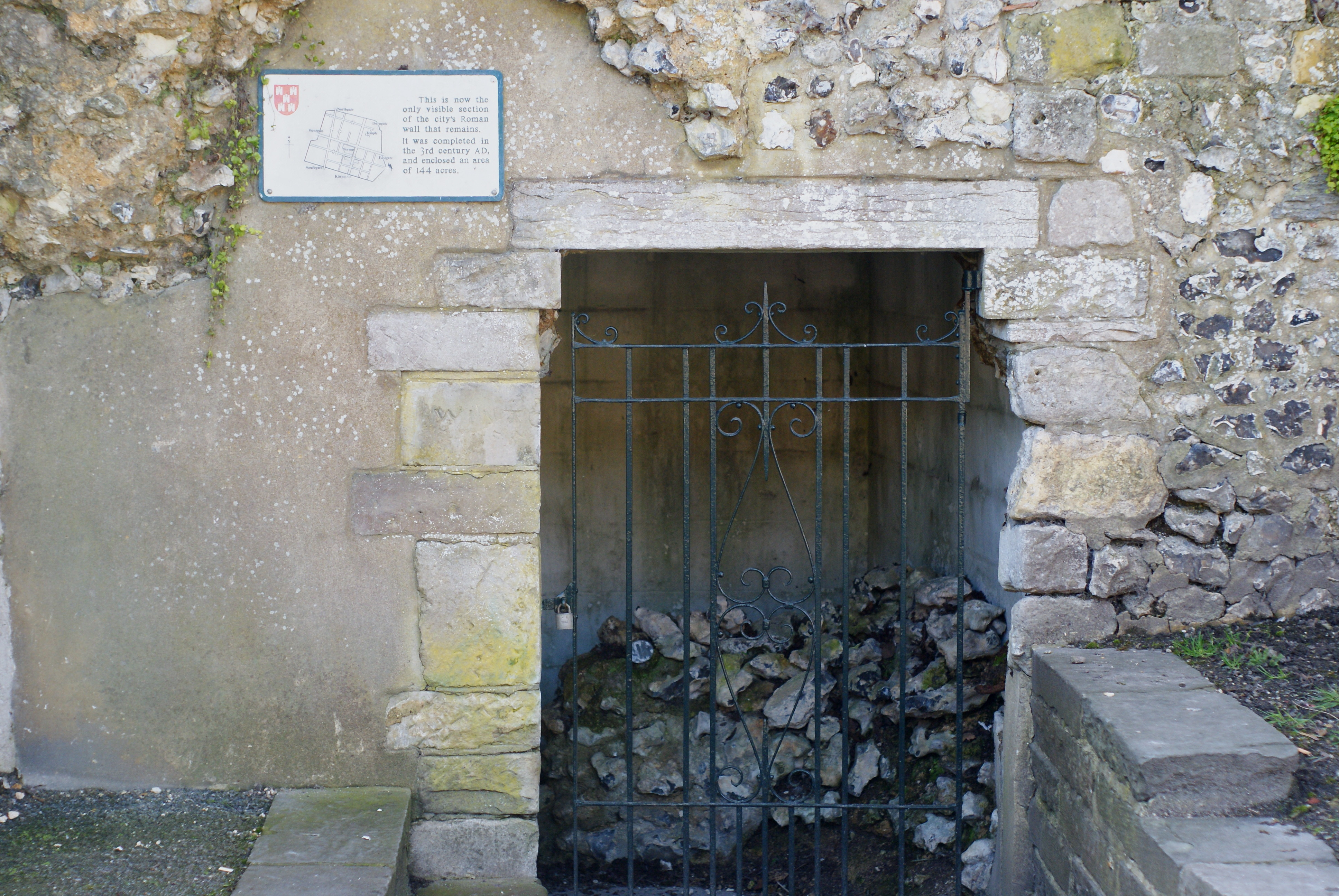 Roman Wall at Winchester A small section of Roman wall, dating from the 3rd century A.D. This is the only remaining visible section of the city's Roman walls. Photograph taken from the footpath, beside the Itchen Navigation.